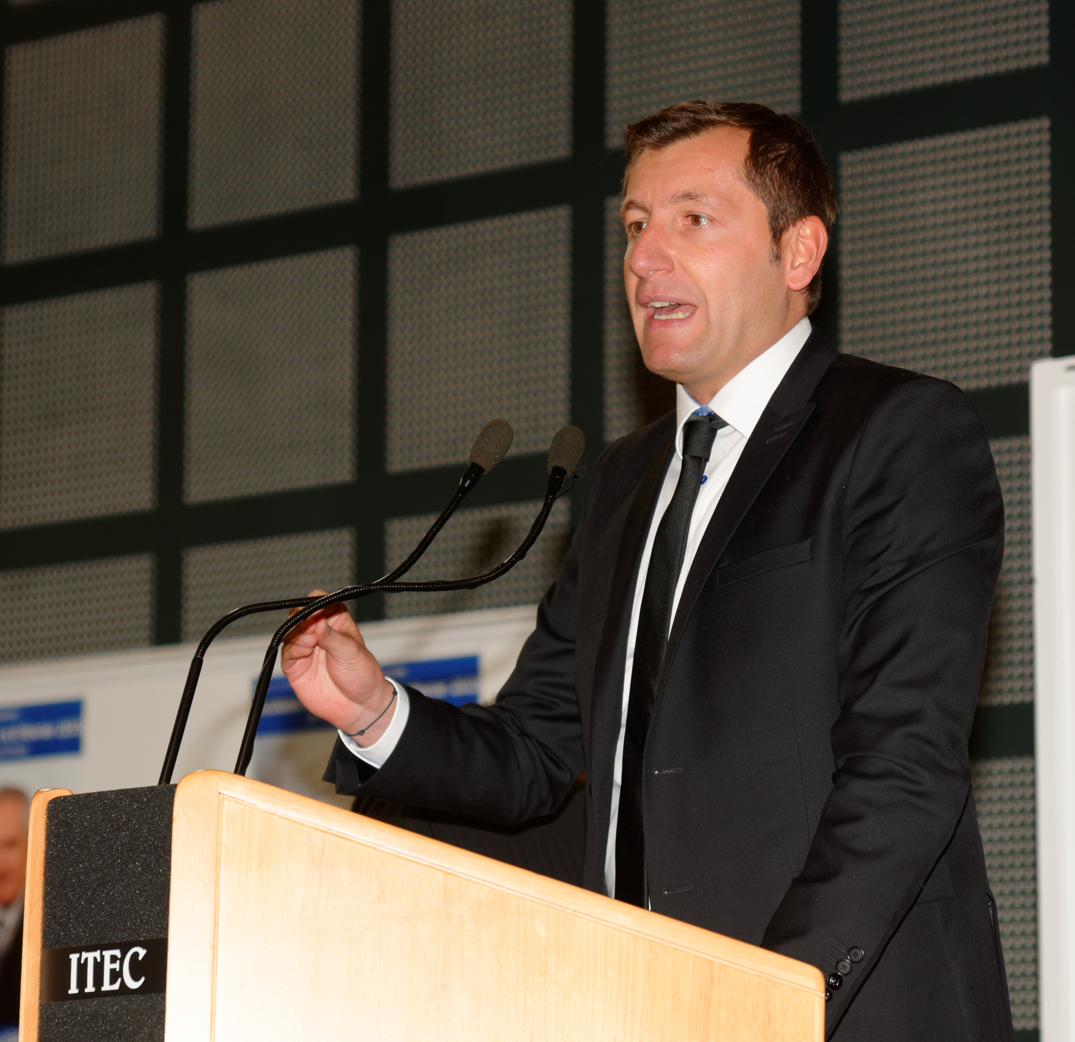 Personality rights warningAlthough this work is freely licensed or in the public domain, the person(s) shown may have rights that legally restrict certain re-uses unless those depicted consent to such uses. In these cases, a model release or other evidence of consent could protect you from infringement claims.